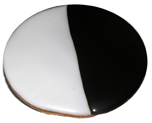 Ben Orwoll, 2006